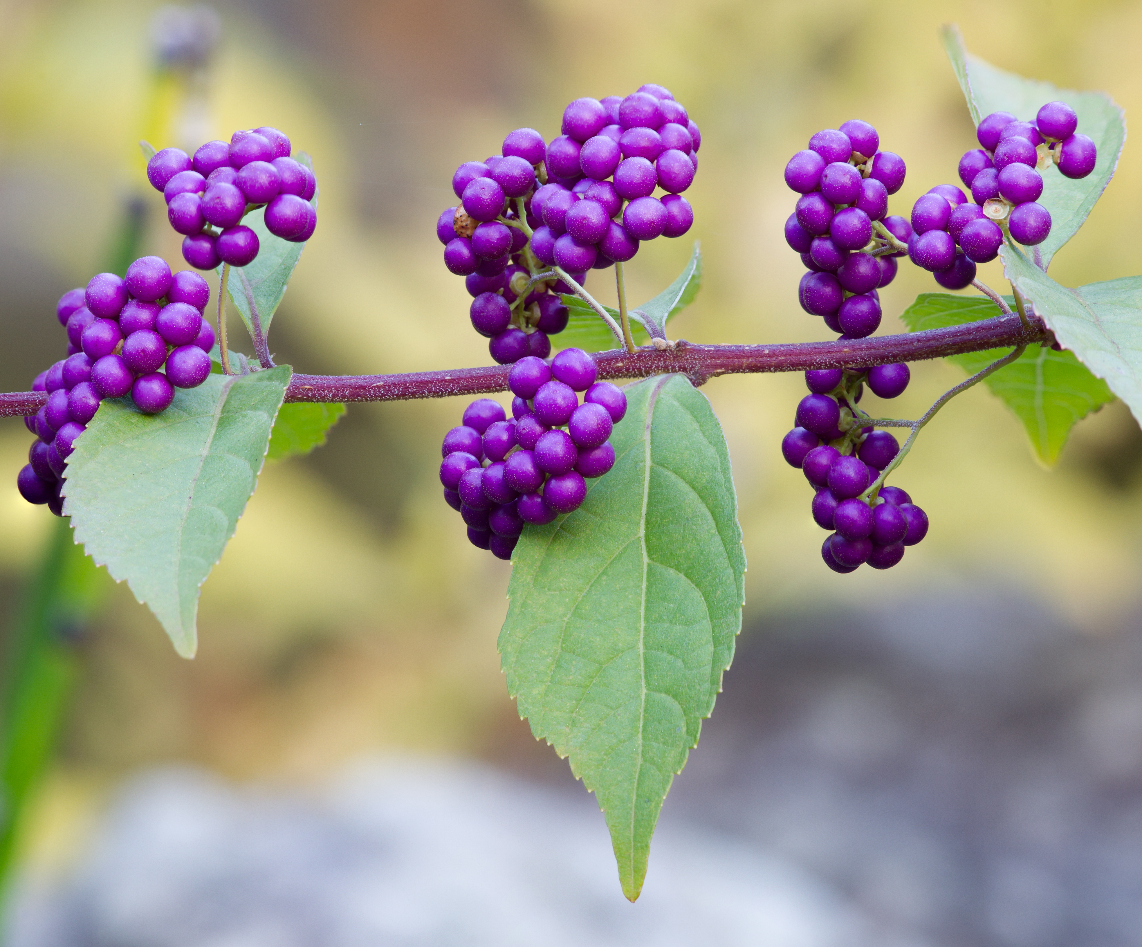 Purple beautyberry, Daisen Park, Sakai, Osaka. Focus stack of 4 photos.